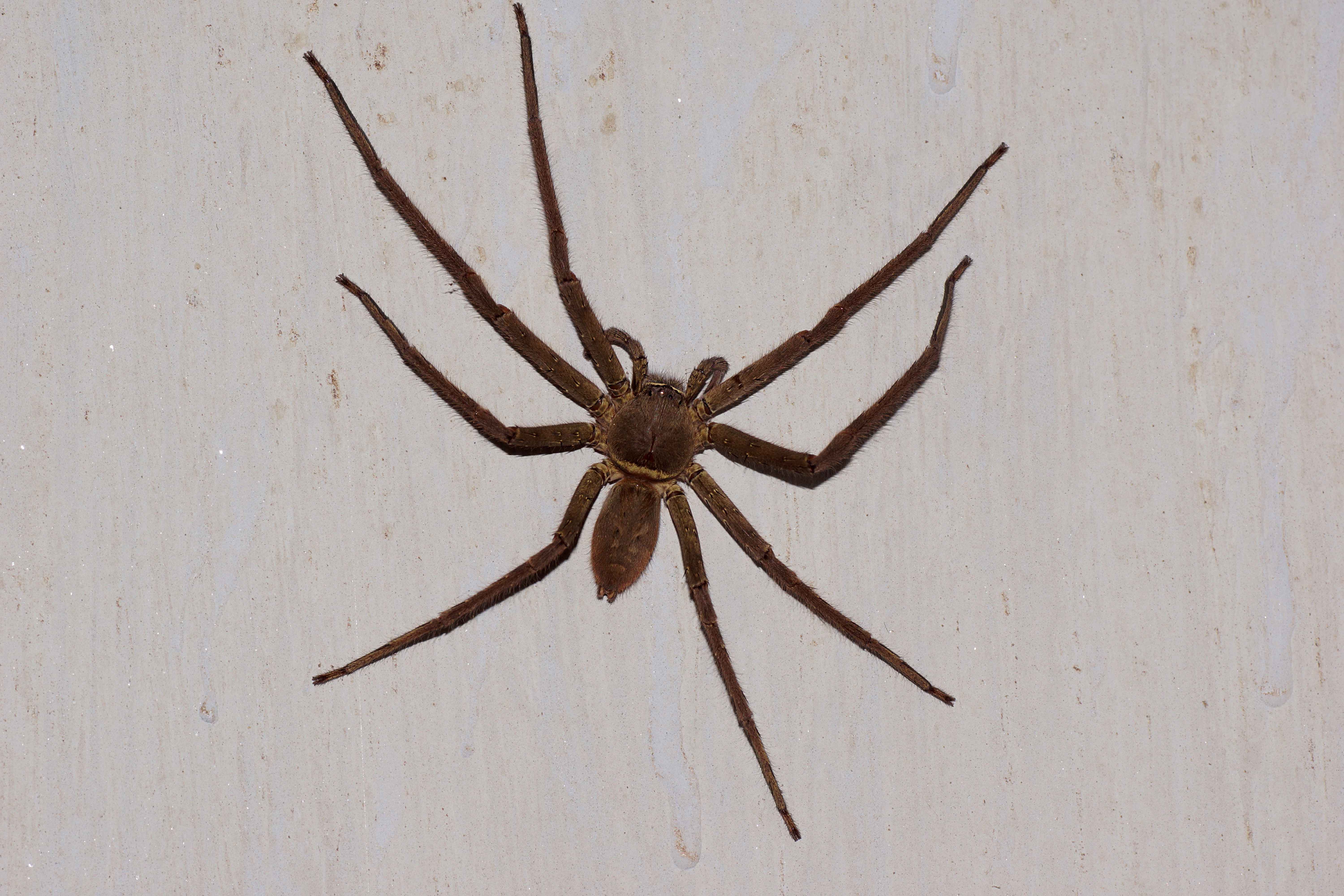 Heteropoda venatoria